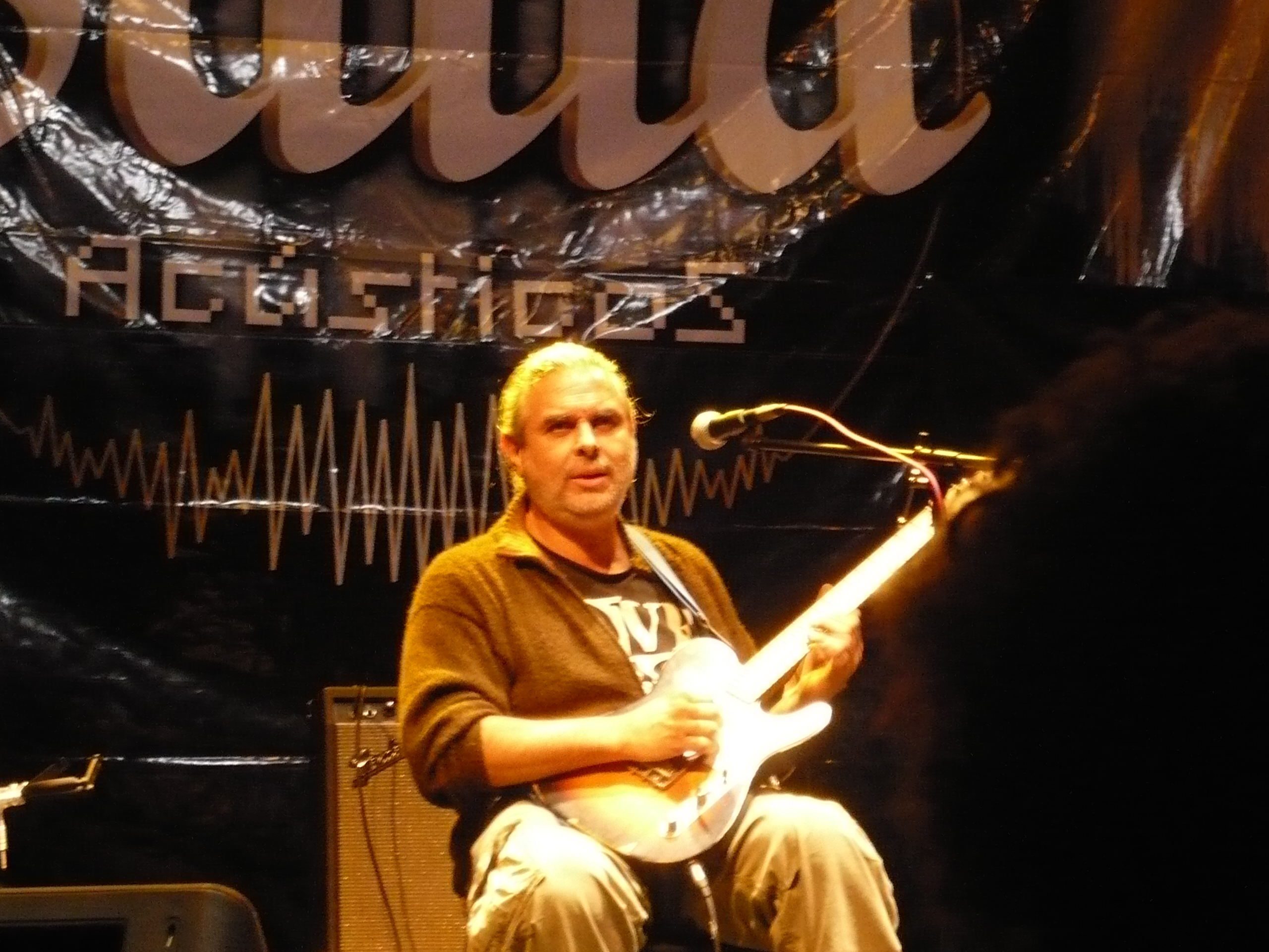 Miguel "Botafogo" Vilanova